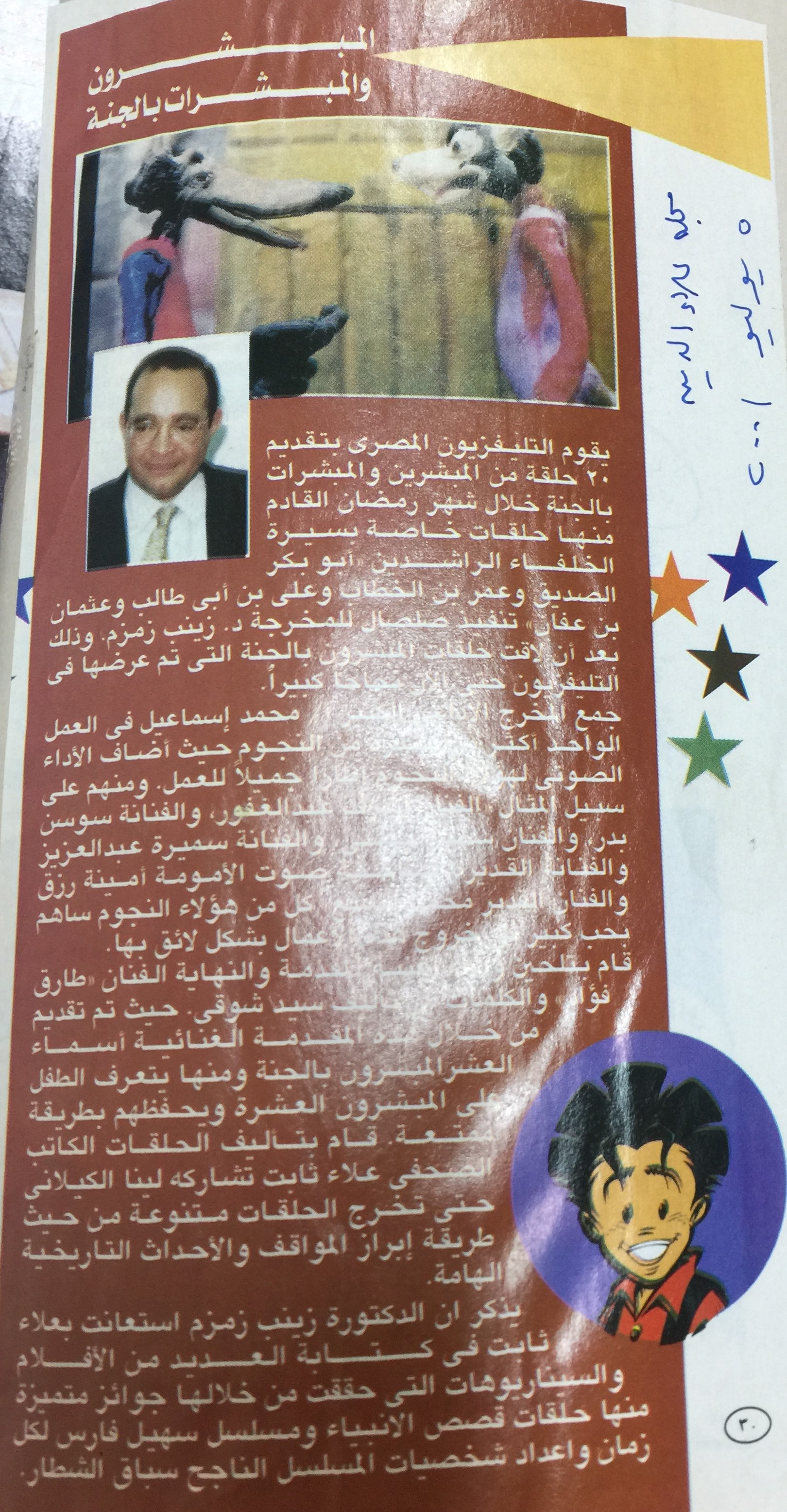 The episodes of the series "Missionaries and Missionaries in Paradise" by Alaa Thabet and director Dr. Zeinab Zamzam